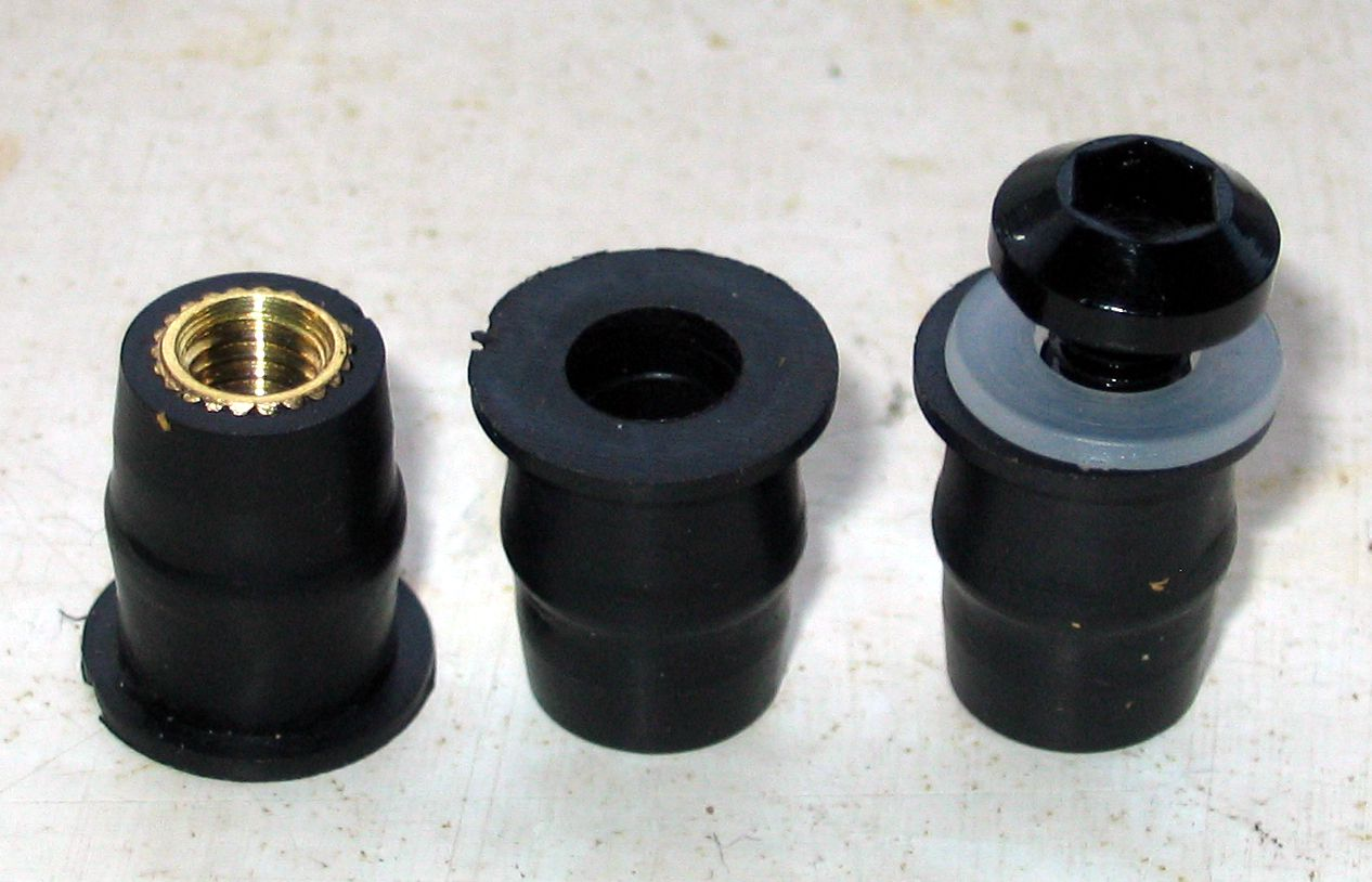 Three 15mm well nuts, showing the captive nut, the rubber cylinder and flange, and a hex bolt